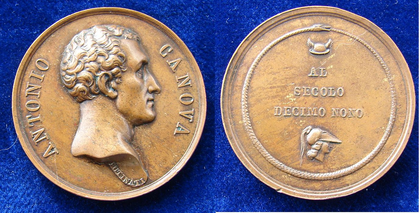 Italy, Medal of the Sculptor Antonio Canova (1757-1822) D. = 34 mm. Bronze Medallion. Head r., around: "ANTONIO CANOVA"/ Encircled by an uroborus: 3 lines under hat of Pallas "AL SECOLO DECIMO NONO", head of Mercury below. ANS # 1940.100.1049. The Metropolitan Museum of Art, Accession # 67.219.2 Condition: EXTREMELY FINE high relief. On the reverse with a tiny edge nick at 7 o'clock, and a light edge bump at 1 o'clock.